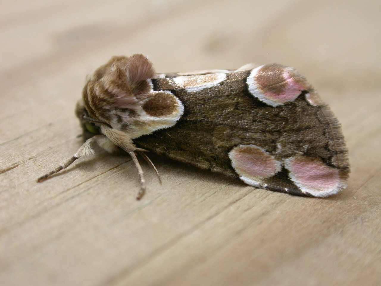 Thyatira batis, Gastes, Landes, SW France